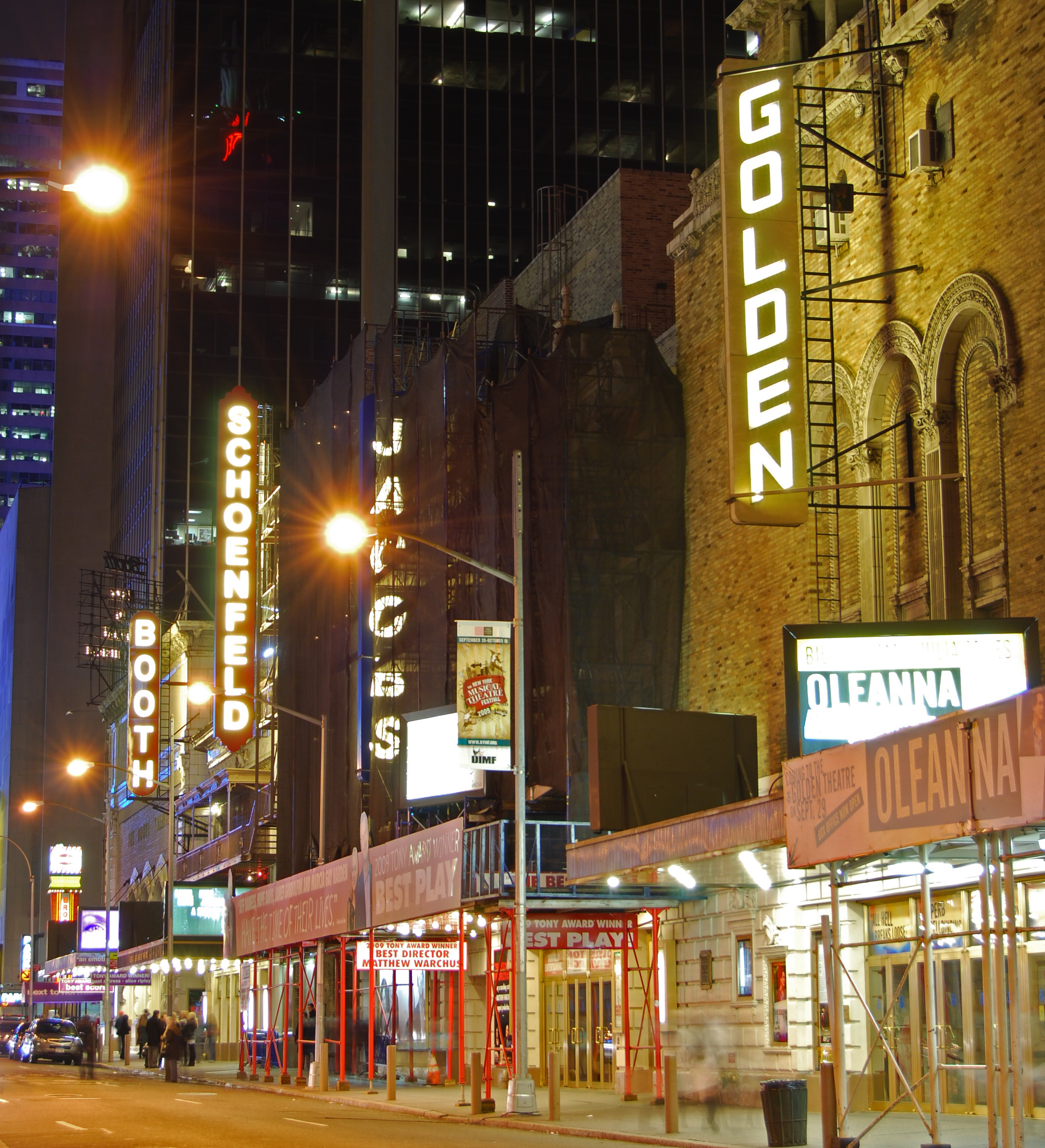 Nighttime photo of the Broadway theaters on West 45th Street (George Abbott Way) in New York City. From right to left, the Golden Theater showing Oleanna; the Jacobs Theater showing God of Carnage; the Schoenfeld Theatre showing A Steady Rain, and the Booth Theater, showing Next to Normal.